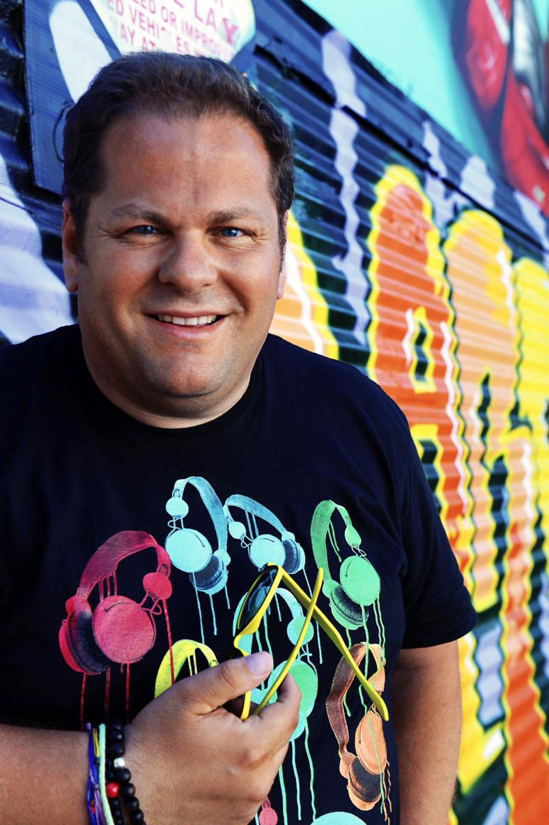 Mayk Azzato